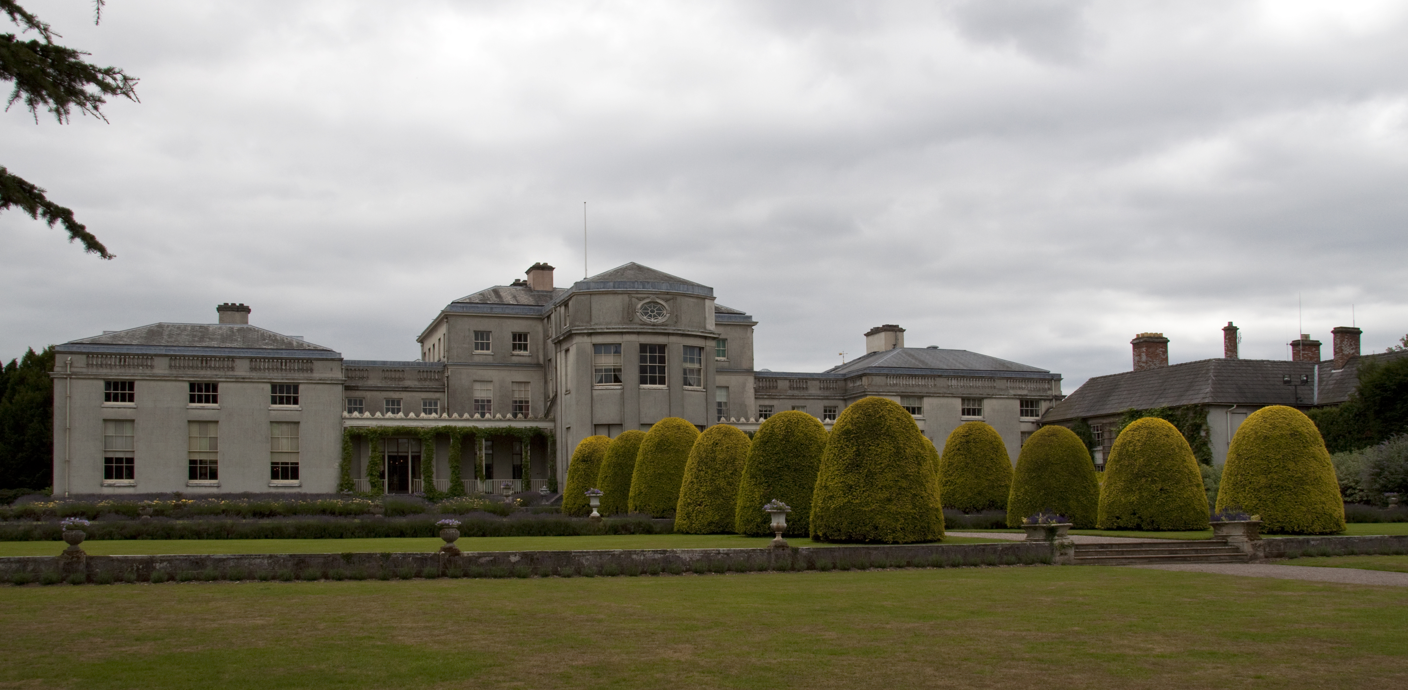 Shugborough 4